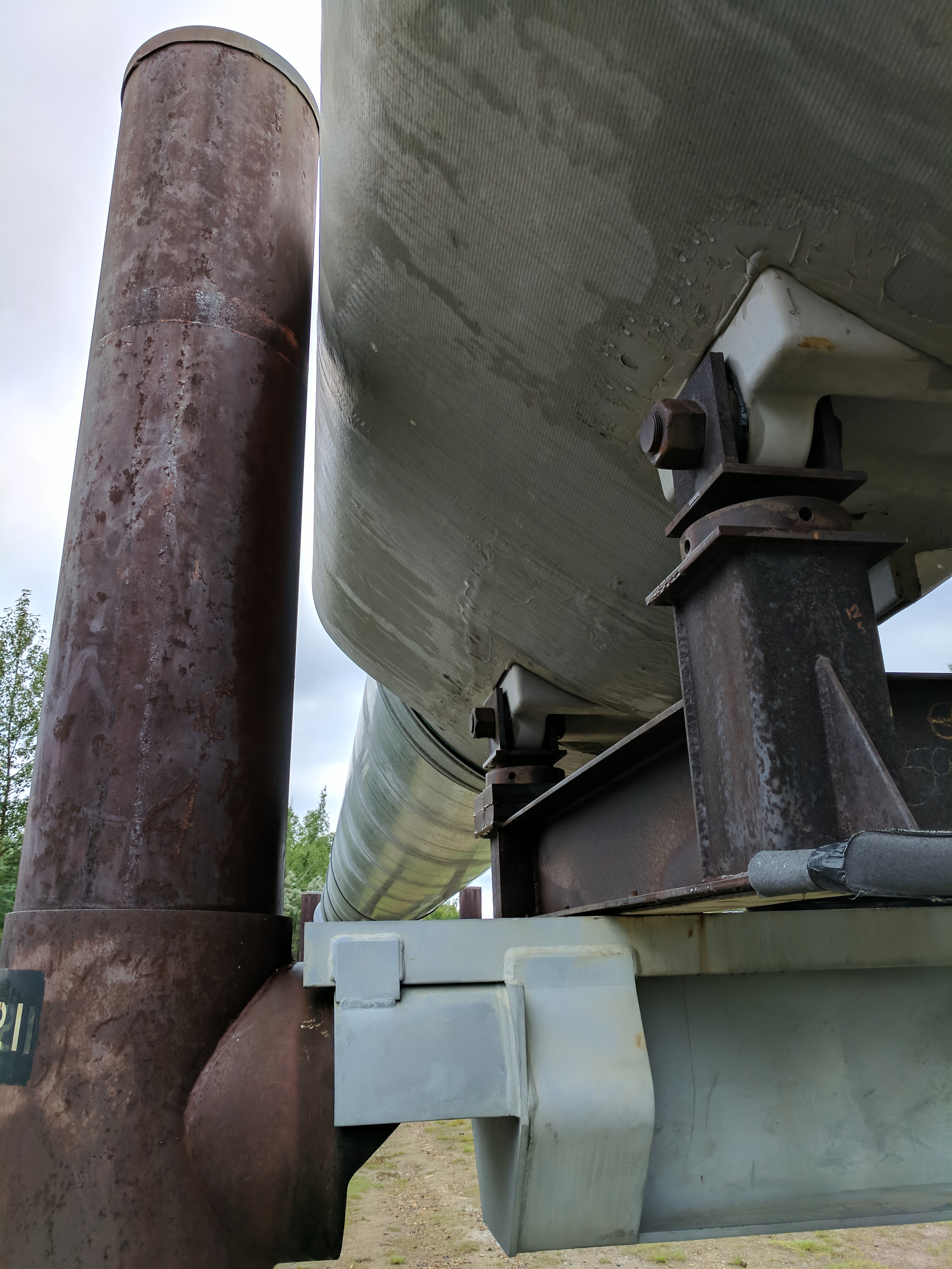 The slider supports of the Trans-Alaska Pipeline System